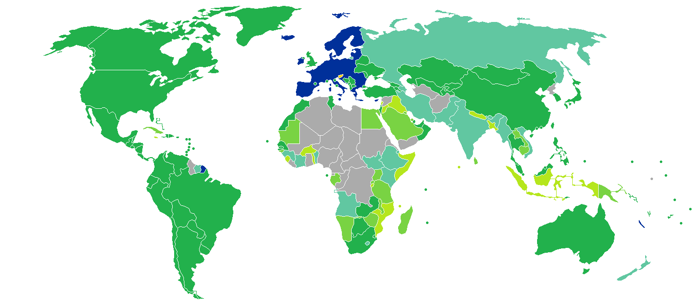 Visa requirements for Slovenian citizens Slovenia Freedom of movement Visa not required Visa on arrival eVisa Visa available both on arrival or online Visa required prior to arrival